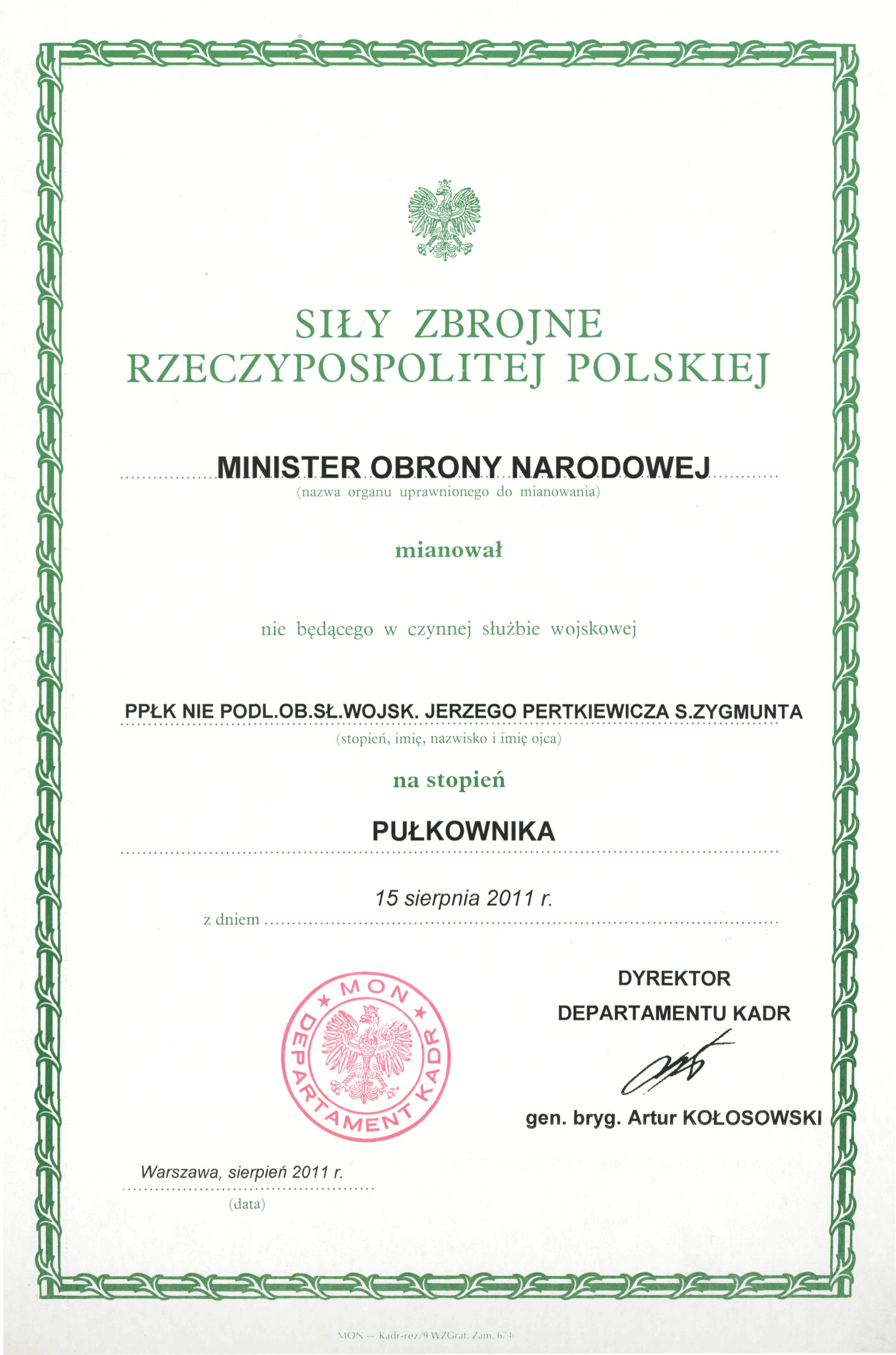 Colonel nomination certificate of Polish Army